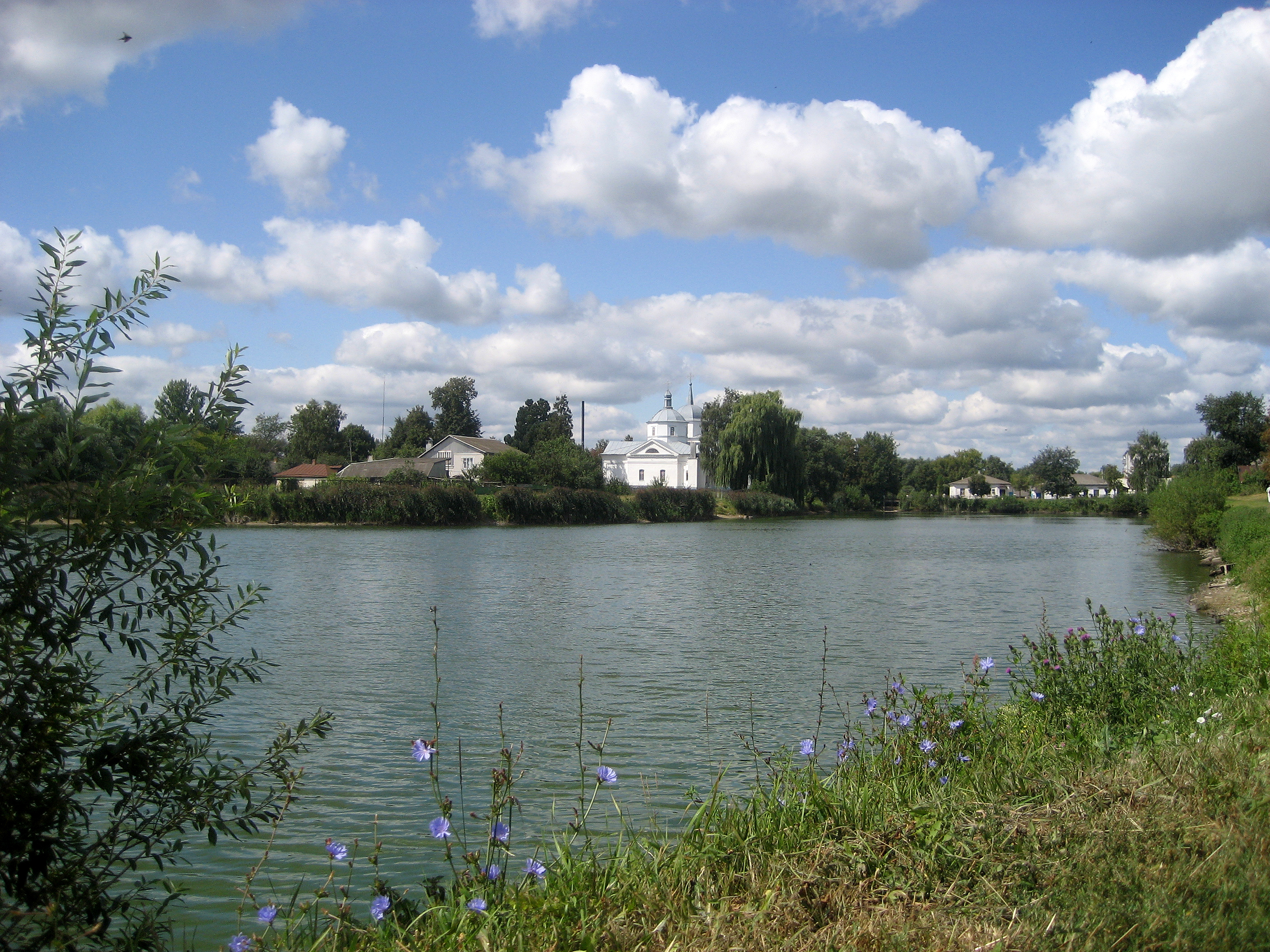 Ichnia. Pound at Ichenka river